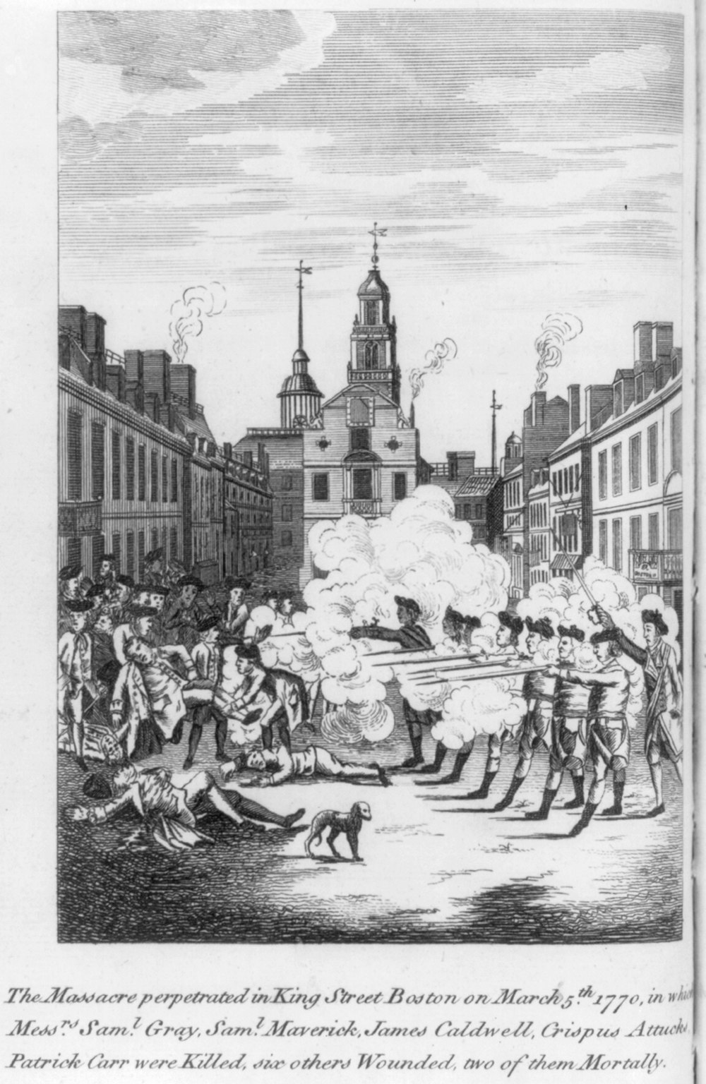 Title: The massacre perpetrated in King Street Boston on March 5th 1770, ... Abstract/medium: 1 print : engraving.